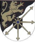 Wappen Budenbach This file depicts the coat of arms of a German Körperschaft des öffentlichen Rechts (corporation governed by public law). According to § 5 Abs. 1 of the German Copyright law, official works like coats of arms are in the public domain. Note: The usage of coats of arms is governed by legal restrictions, independent of the copyright status of the depiction shown here.